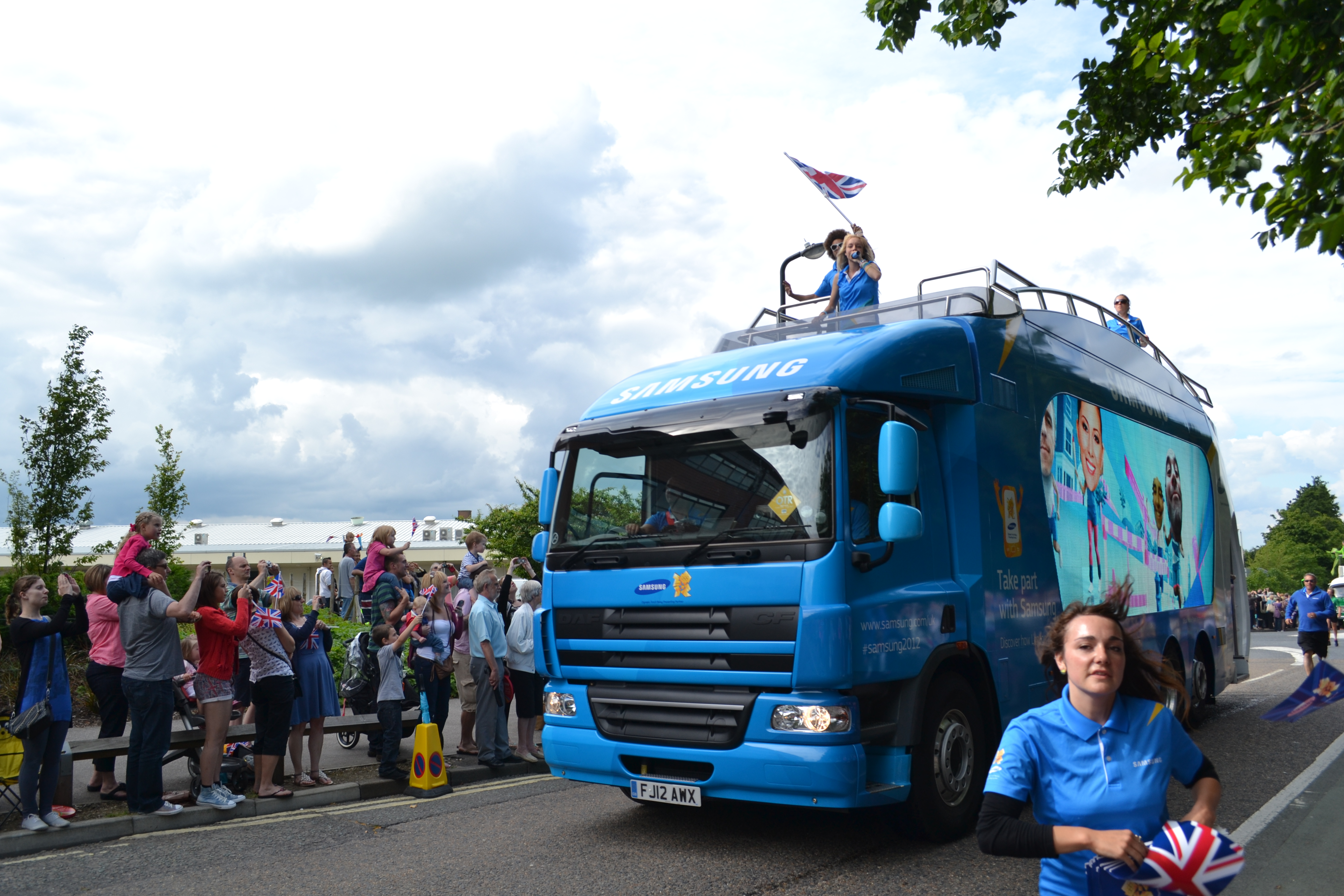 Bury Leisure Centre, Bury St Edmunds